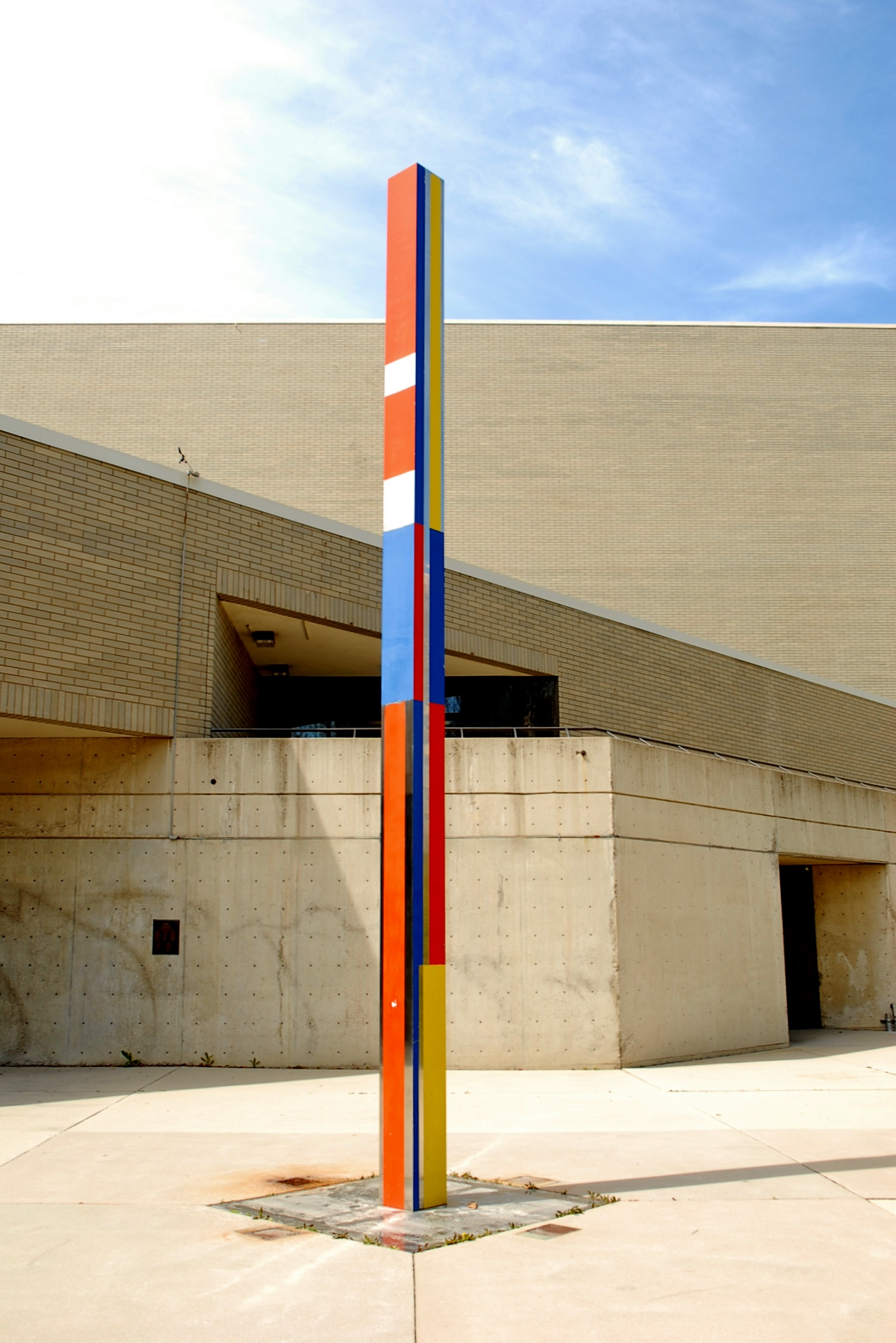 Ilya Bolotowsky sculpture, located in UMOCA's courtyard.